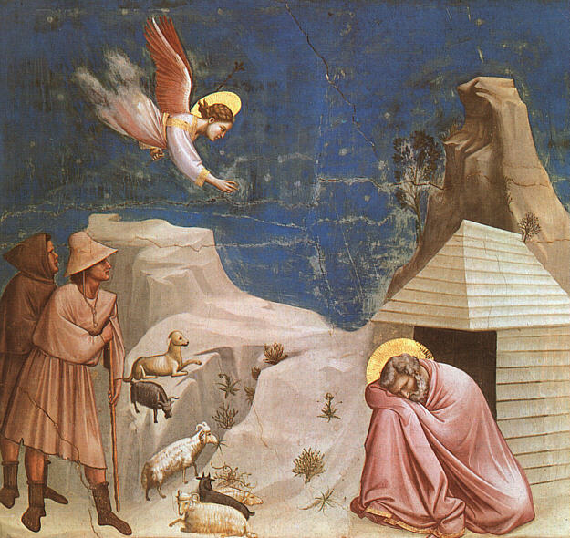 Legend of St Joachim